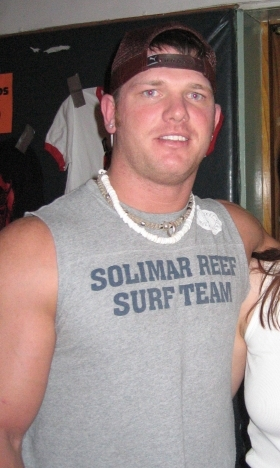 A.J. Styles